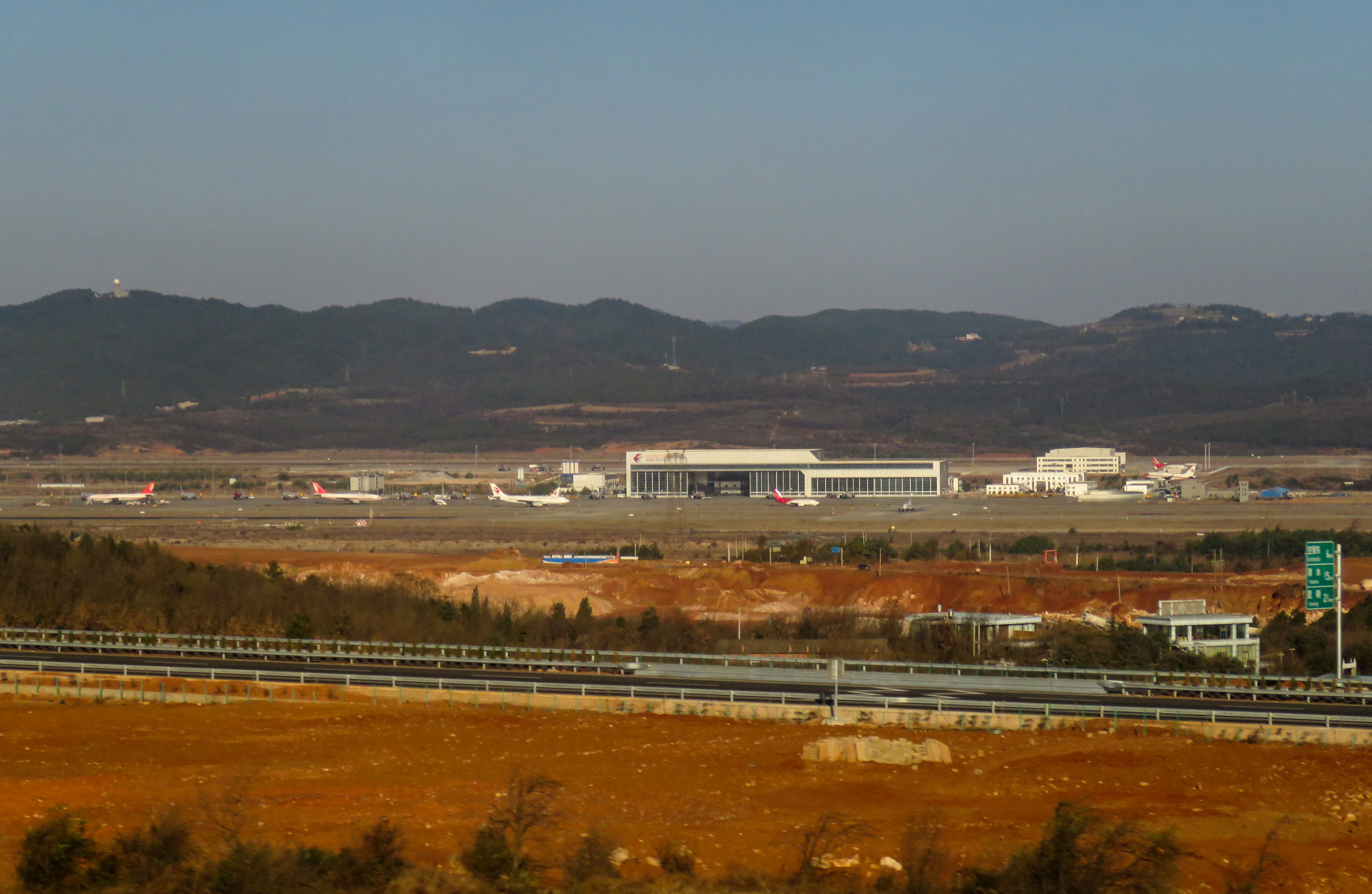 Taken from G2888.